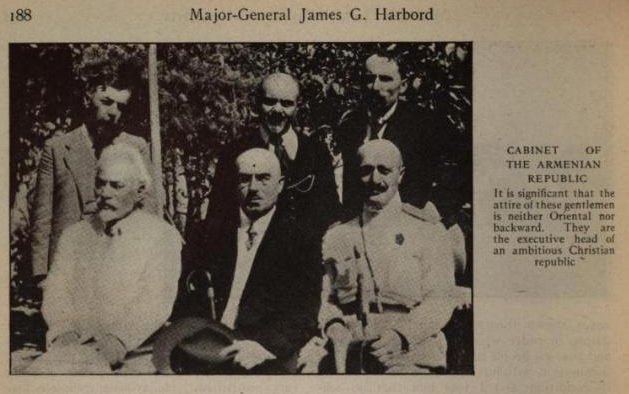 James_G_Harbord_Report-Cabinet_of_Democratic_Republic_of_Armenia-1919.png (629 × 394 pixels, file size: 301 KB, MIME type: image/png)